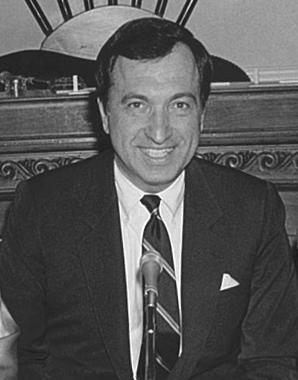 Art Agnos